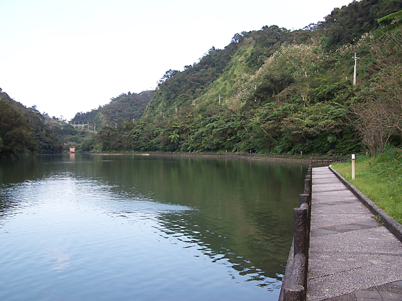 Changpi Lake